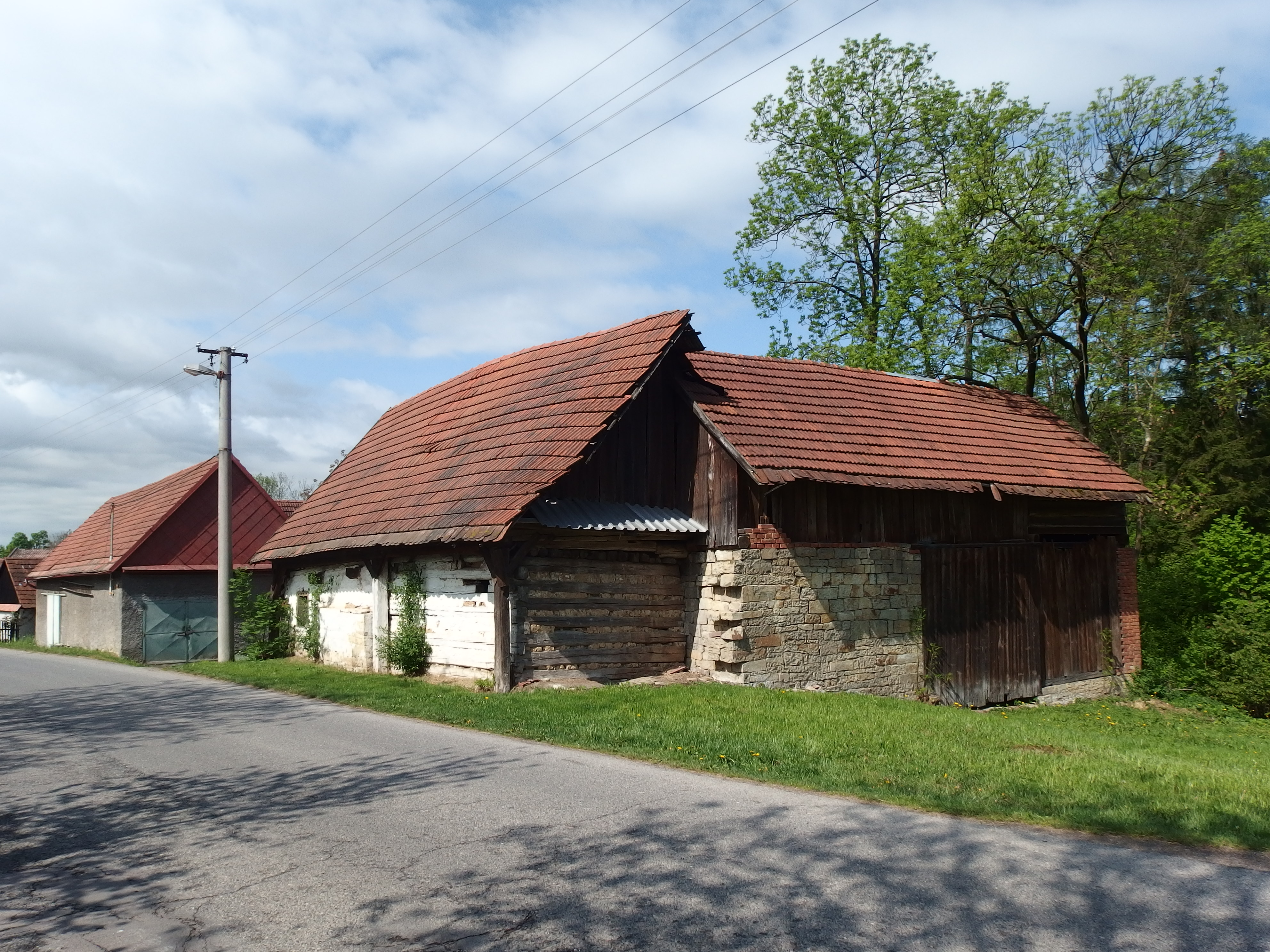 Leština, Ústí nad Orlicí District, Czech Republic, part Dvořiště.